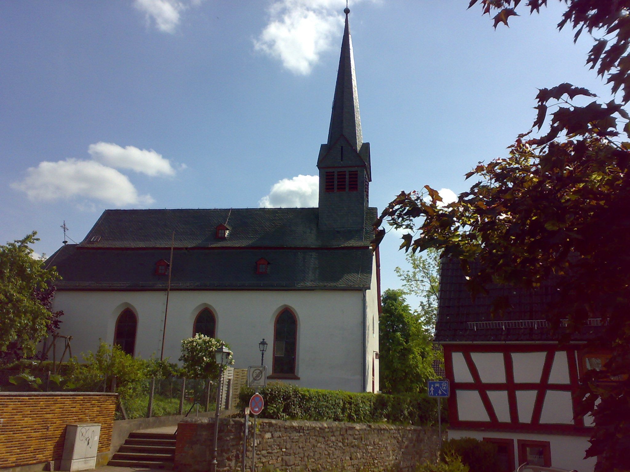 Catholic church in Wehrheim, Hesse, Germany